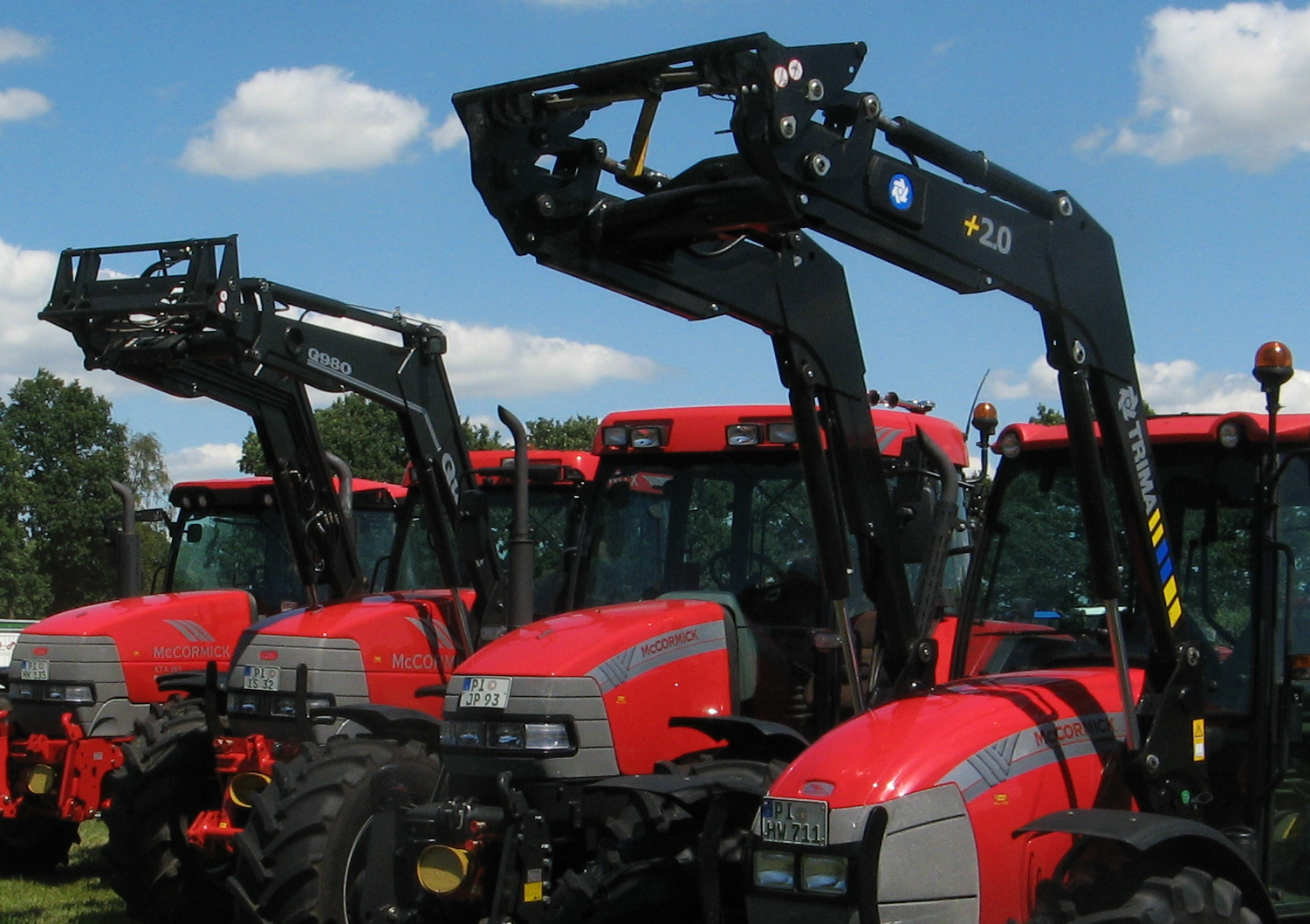 McCormick tractors with Quicke (left) and Trima (right) front end loaders waiting at the Lutzhorn tractor pulling, Lutzhorn, Holstein, Germany